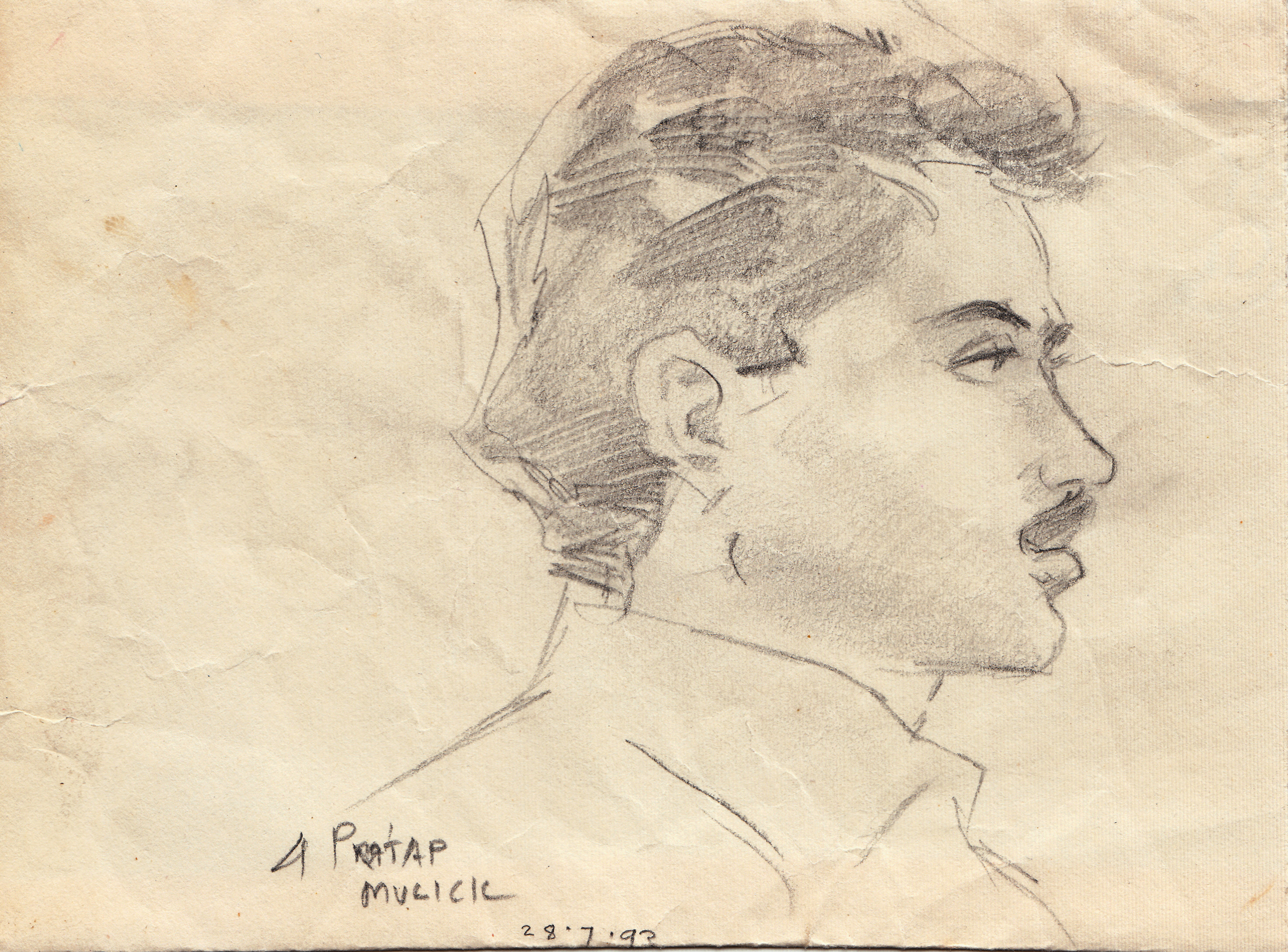 A rare art of Late Shri Pratap Mullick of Manoj Gupta from Raj Comics.